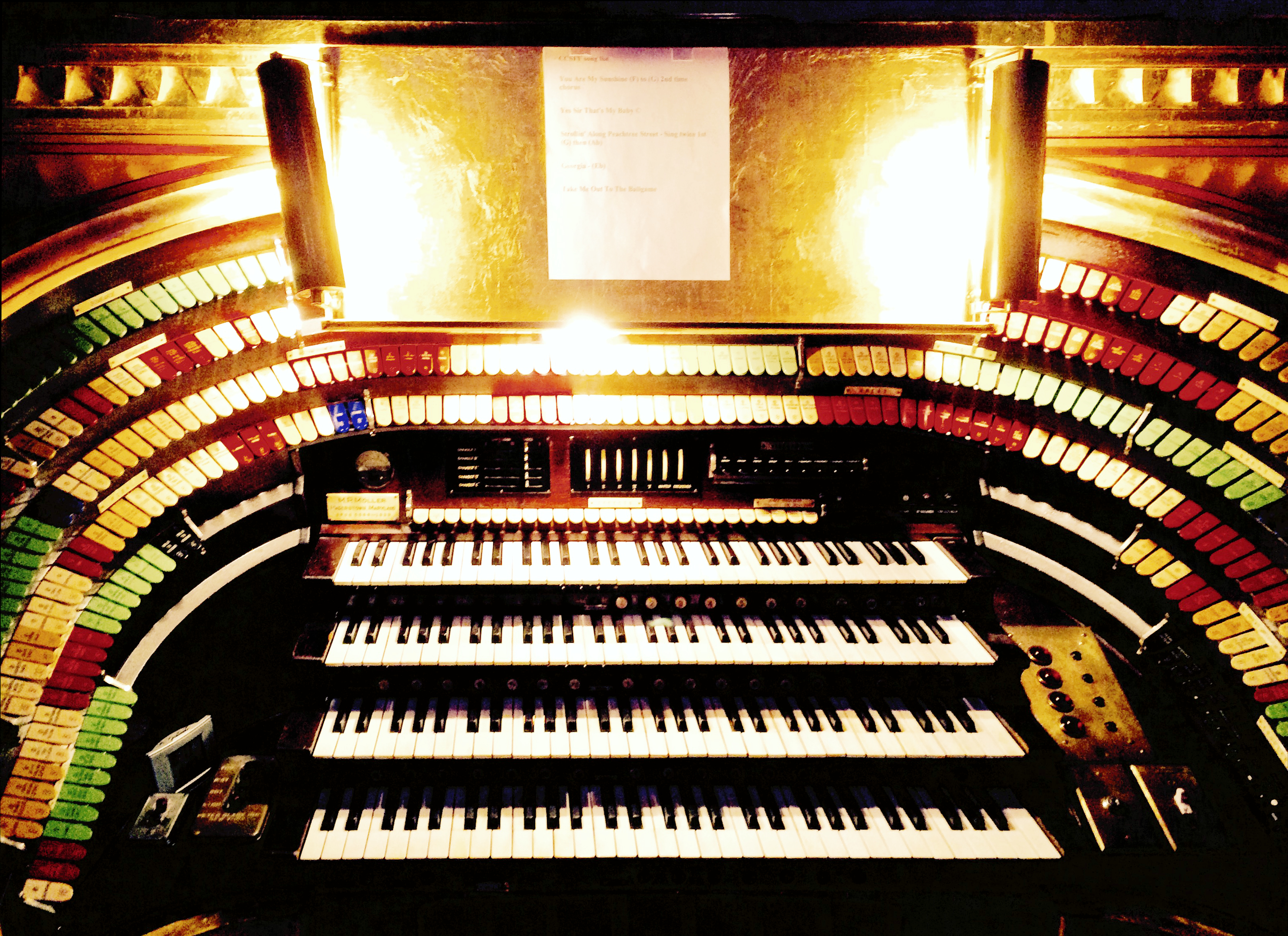 Organ at Fox Theater References The “Mighty Mo” Organ. Atlanta: The Fox Theatre. Mighty Mo, Fox Theatre's Opus 5566 Möller Pipe Organ. A Cyber Tour of the Atlanta Fox Theatre, The Atlanta Fox Theatre .